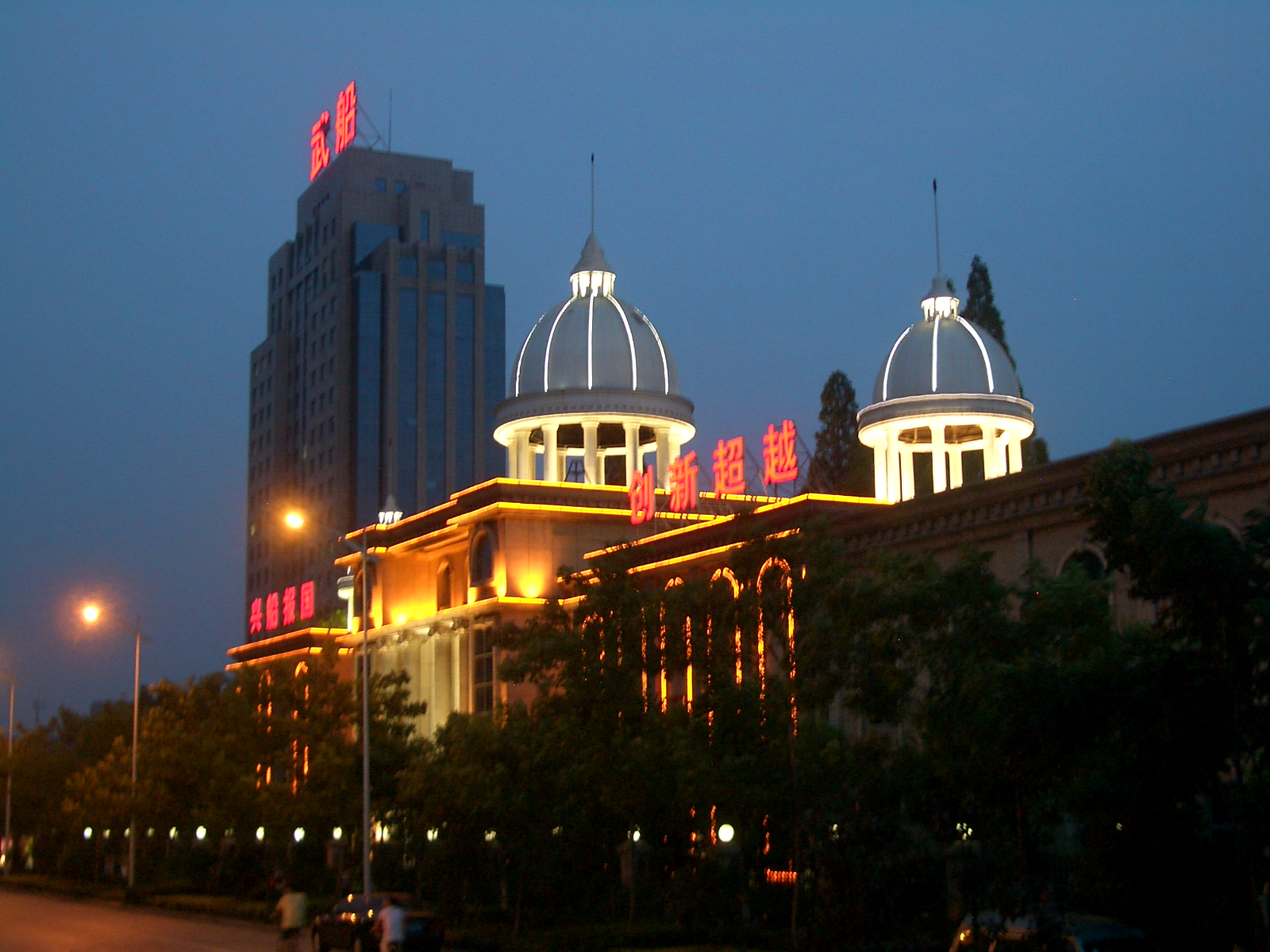 The main office of the Wuhan Shipbuilding Compnay (Wu Chuan), located in Ziyang St. in Wuchang, not far from the Yangtze River waterfront